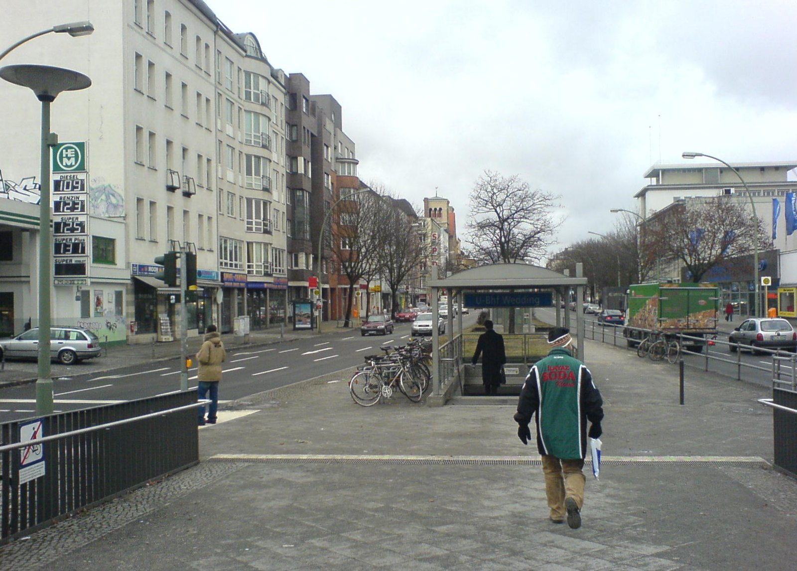 Subway station in Wedding, Berlin, Germany